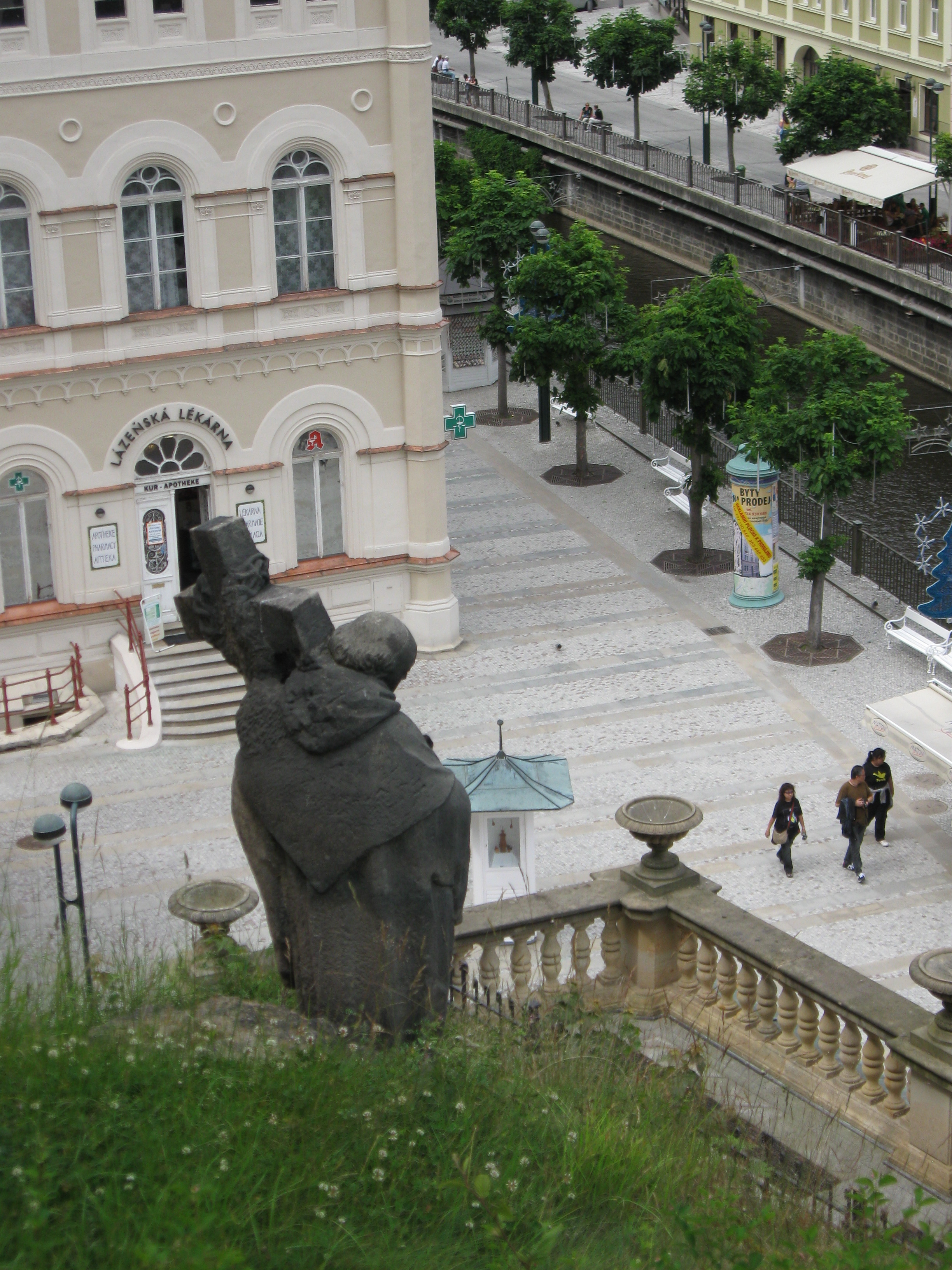 Unknown statue in Skalník Park, Karlovy Vary, Czech Republic.